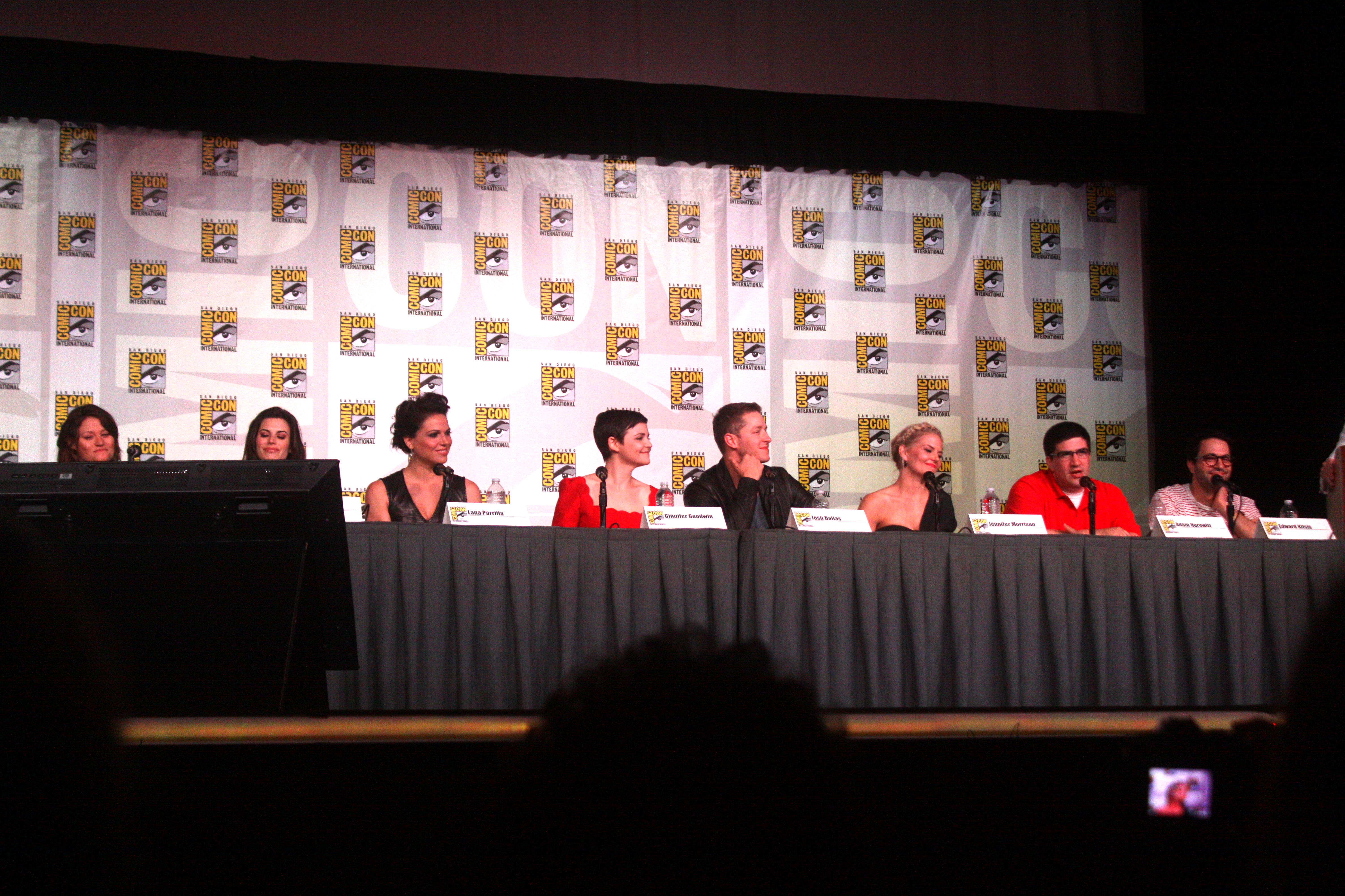 The Once Upon A Time cast speaking at the 2012 San Diego Comic-Con International in San Diego, California.